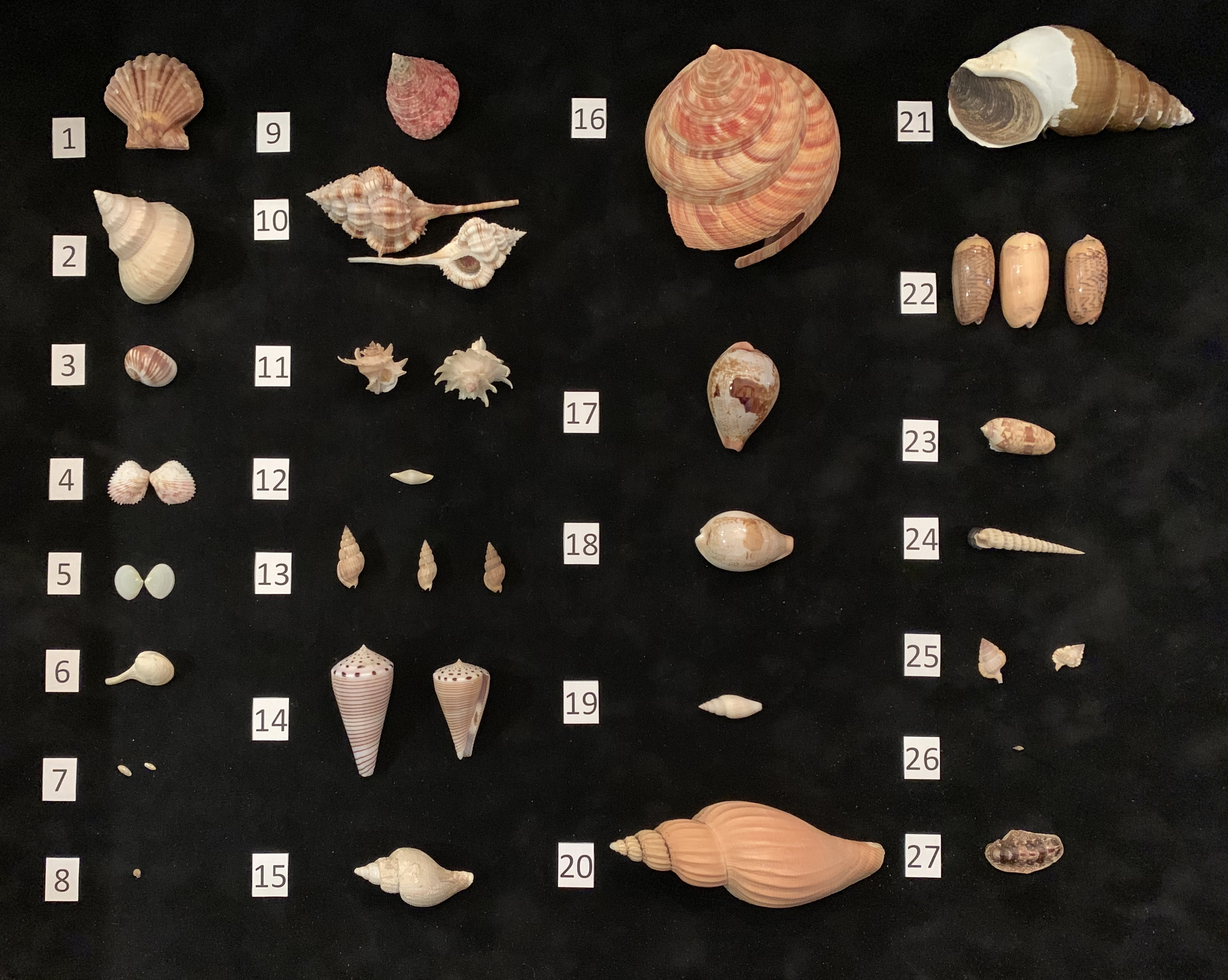 1- Volachlamys hirasei (Bavay, 1904) 2- Ginebis argenteonitens hirasei (var.) (Taki, I. & Y. Otuka, 1943) 3- Cryptonatica hirasei (Pilsbry, H.A., 1905) 4- Centrocardita hirasei (Dall, 1918) 5- Clathrotellina hirasei (Pilsbry, 1904) 6- Cuspidaria hirasei (Kuroda, 1948) 7- Volvarina hirasei (Bavay, A.R.J.B., 1917) 8- Chamalycaeus hirasei (Pilsbury, 1900) 9- Tectus (Rochia) conus conus hirasei (var.) (Pilsbry, H.A., 1904) 10-Vokesimurex hirasei(Dautzenberg, Ph. Hirase, Y., 1915) 11- Babelomurex hirasei (Shikama, T, 1964) 12- Quasisimnia hirasei (Pilsbry, H.A., 1913) 13- Antillophos (Antillophos) hirasei (Sowerby, G.B. III, 1913) 14- Kioconus hirasei (Kuroda, T., 1956) 15- Habevolutopsius hirasei (Pilsbry, H.A., 1907) 16- Mikadotrochus hirasei hirasei (Pilsbry, H.A., 1903) 17- Austrasiatica hirasei (Roberts, S.R., 1913) 18- Austrasiatica hirasei queenslandica (var.) (Schilder, F.A., 1966) 19- Mitra hirasei (Pilsbry, 1904) 20- Fulgoraria (Musashia) hirasei (Sowerby, G.B. III, 1912) 21- Japelion (Japelion) hirasei (Pilsbry, H.A., 1901) 22- Oliva (Miniaceoliva) hirasei (Kira, T., 1959) 23- Oliva (Miniaceoliva) hirasei ameliae (Strano, G., 2016) 24- Terebra hirasei (Vredenburg, E.W., 1921) 25- Gyrineum hirasei (Kuroda, T. & T. Habe, 1961) 26- Eucithara hirasei (Pilsbry, H.A., 1904) 27- Onithochiton hirasei (Pilsbry, 1901) Not Pictured 1- Oliva hirasei vezzarokarinae (Cossignani, 2018) 2- Mormula hirasei (Kuroda, 1960) 3- Phasianotrochus hirasei (Pilsbry, H.A., 1907) 4- Siphonalia hirasei (Kuroda, T. & T. Habe, 1961) 5- Limaria (Platilimaria) hirasei (Pilsbry, 1901)